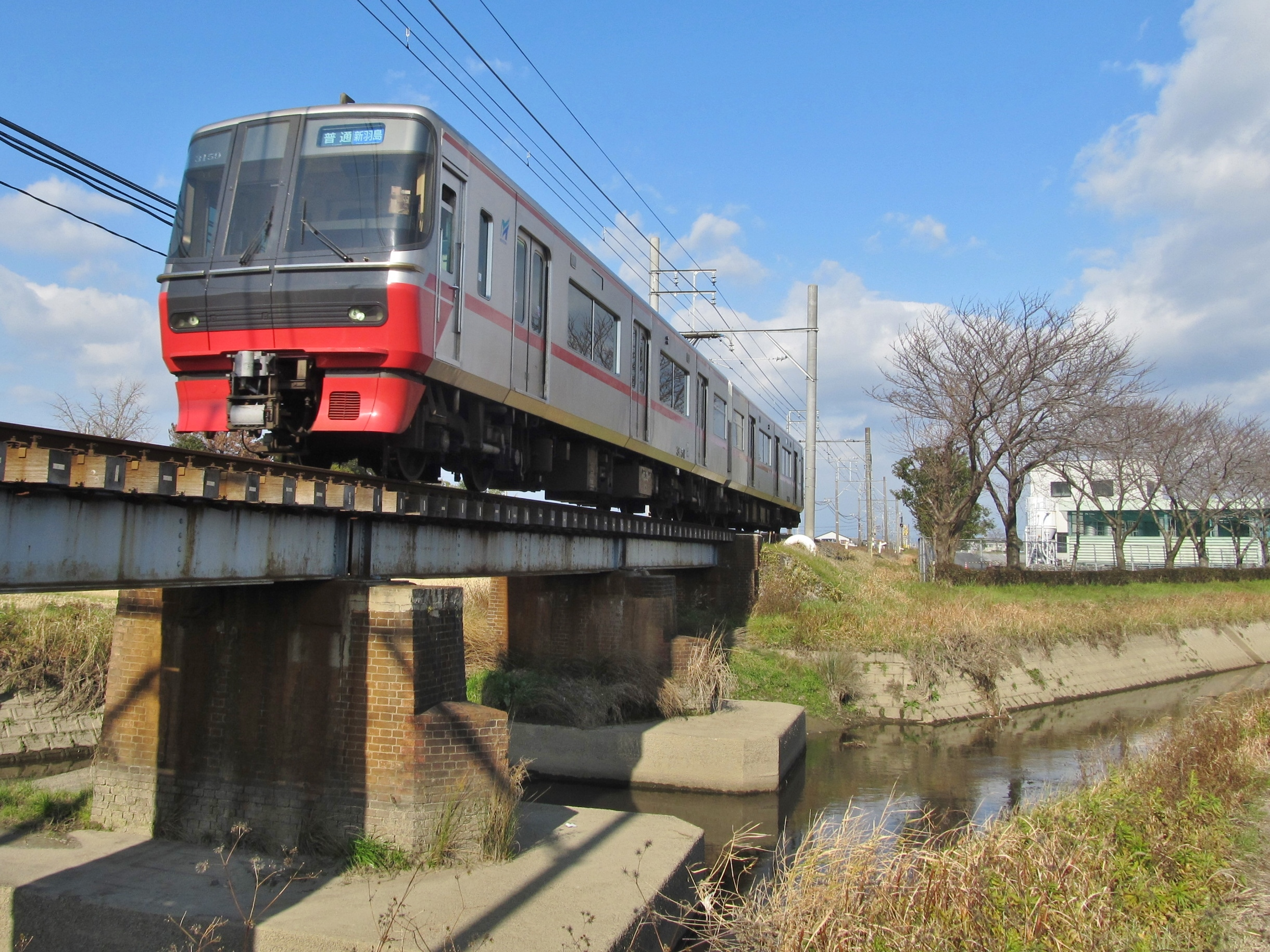 Train passes a No.7 bridge for relief open. In Takehana Line.